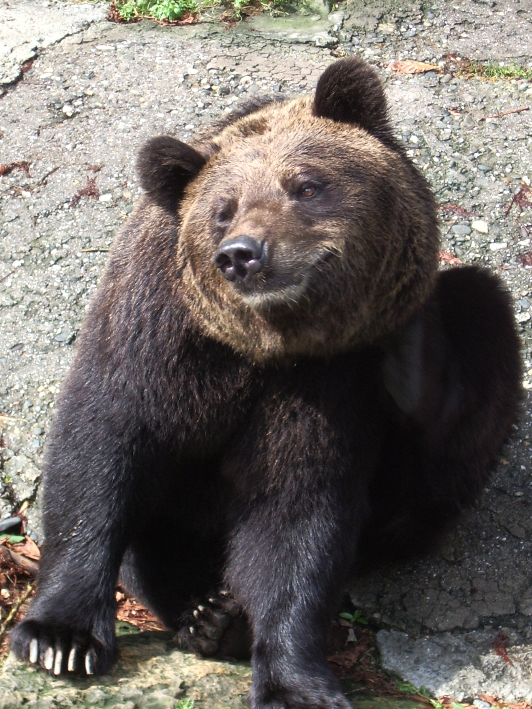 Bear in the Zoo